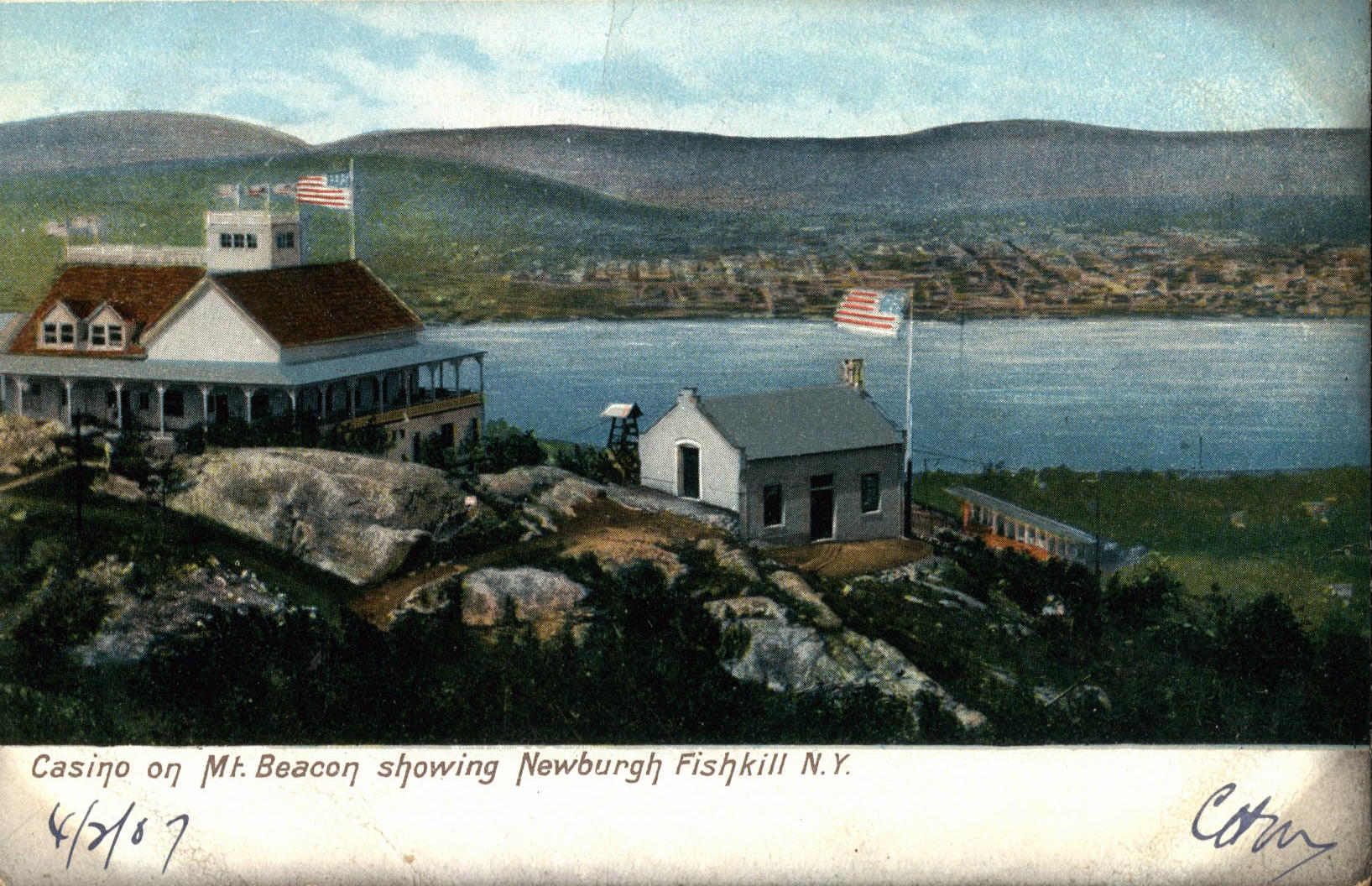 Mt.Beacon Casino, showing Newburgh, fishkill, Ny